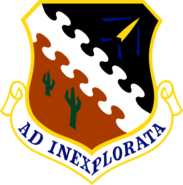 Emblem of the Air Force Flight Test Center of the United States Air Force